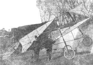 A photograph of "Spheroplane 1" (Сфероплан №1), designed and built by Anatoly Georgievich Ufimtsev (Анатолий Георгиевич Уфимцев), circa 1910